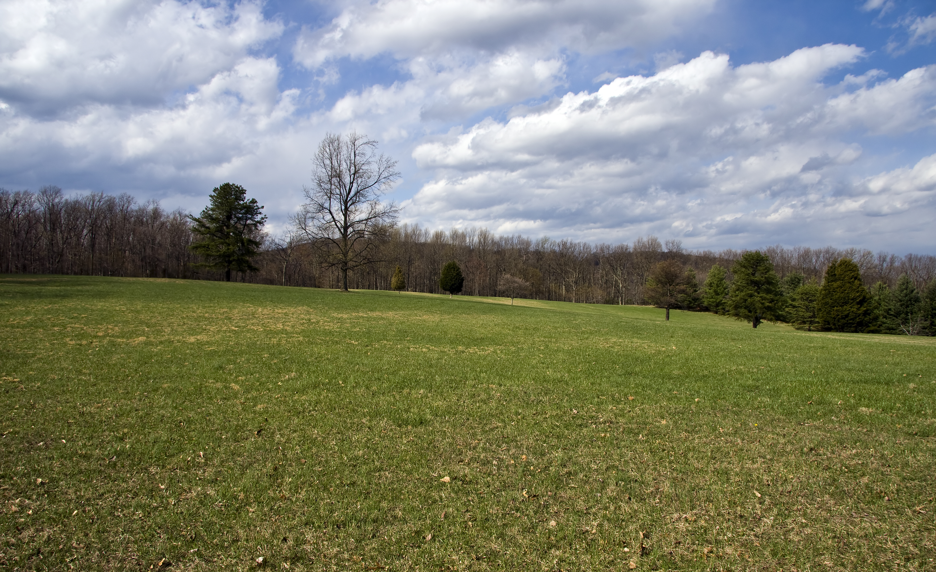 Fox Gap, or Fox's Gap, Frederick/Washington Counties, Maryland, looking northeast to Turner's Gap